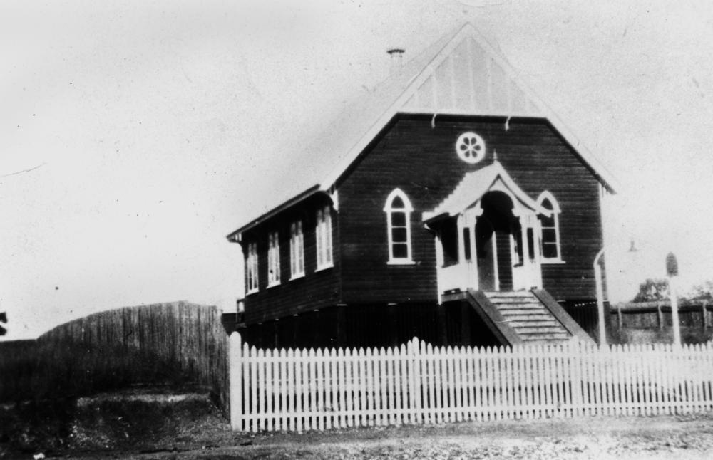 Enoggera Presbyterian Church, at Pickering Street, Gaythorne, 1915